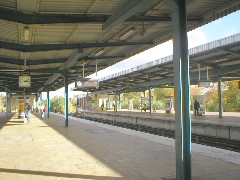 Berlin's underground and train station Wuhletal, Berlin, Germany